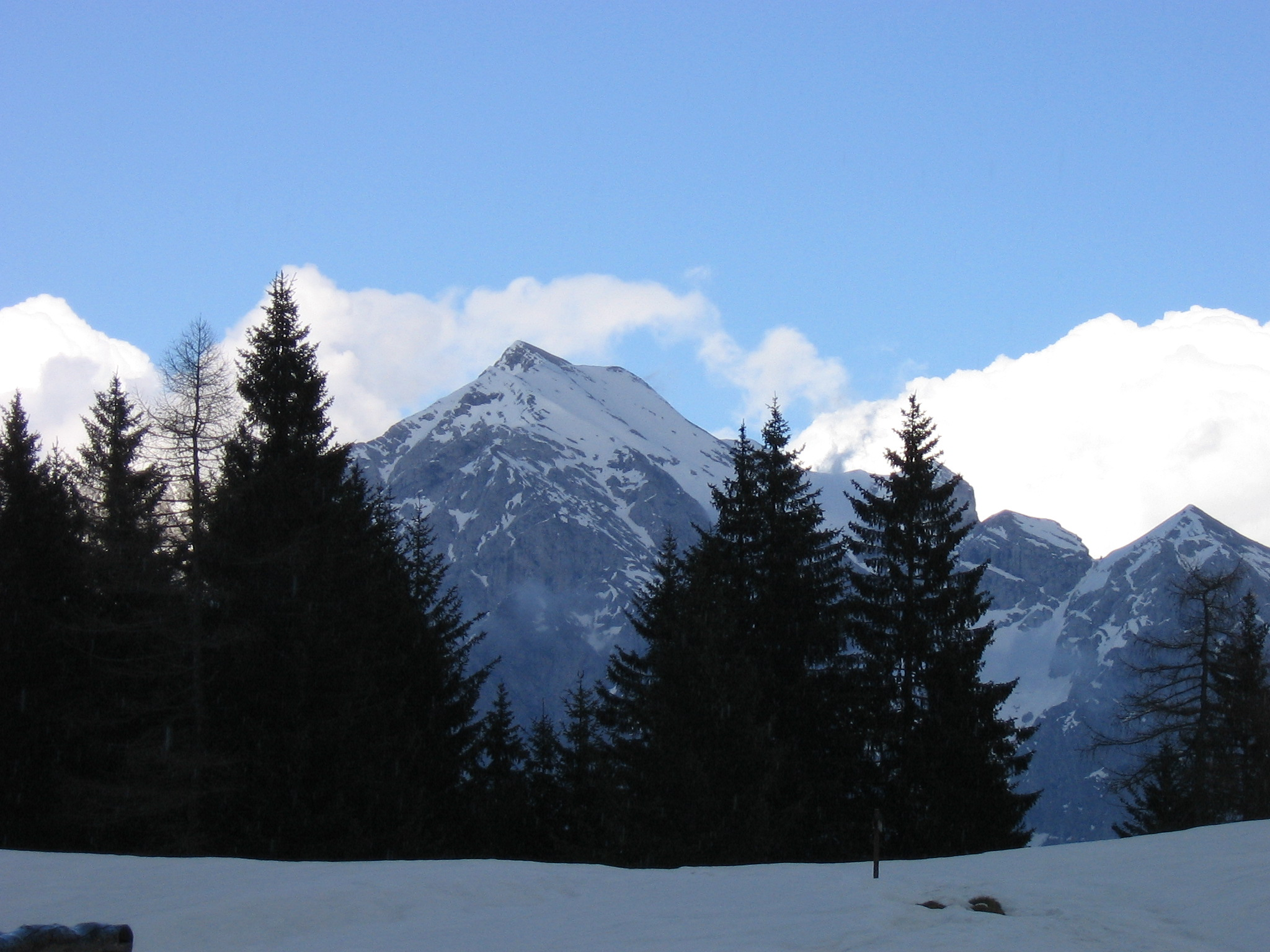 Concarena (2549 mt.) seen from Colle Mignone, not far from Borno, Lombardy.